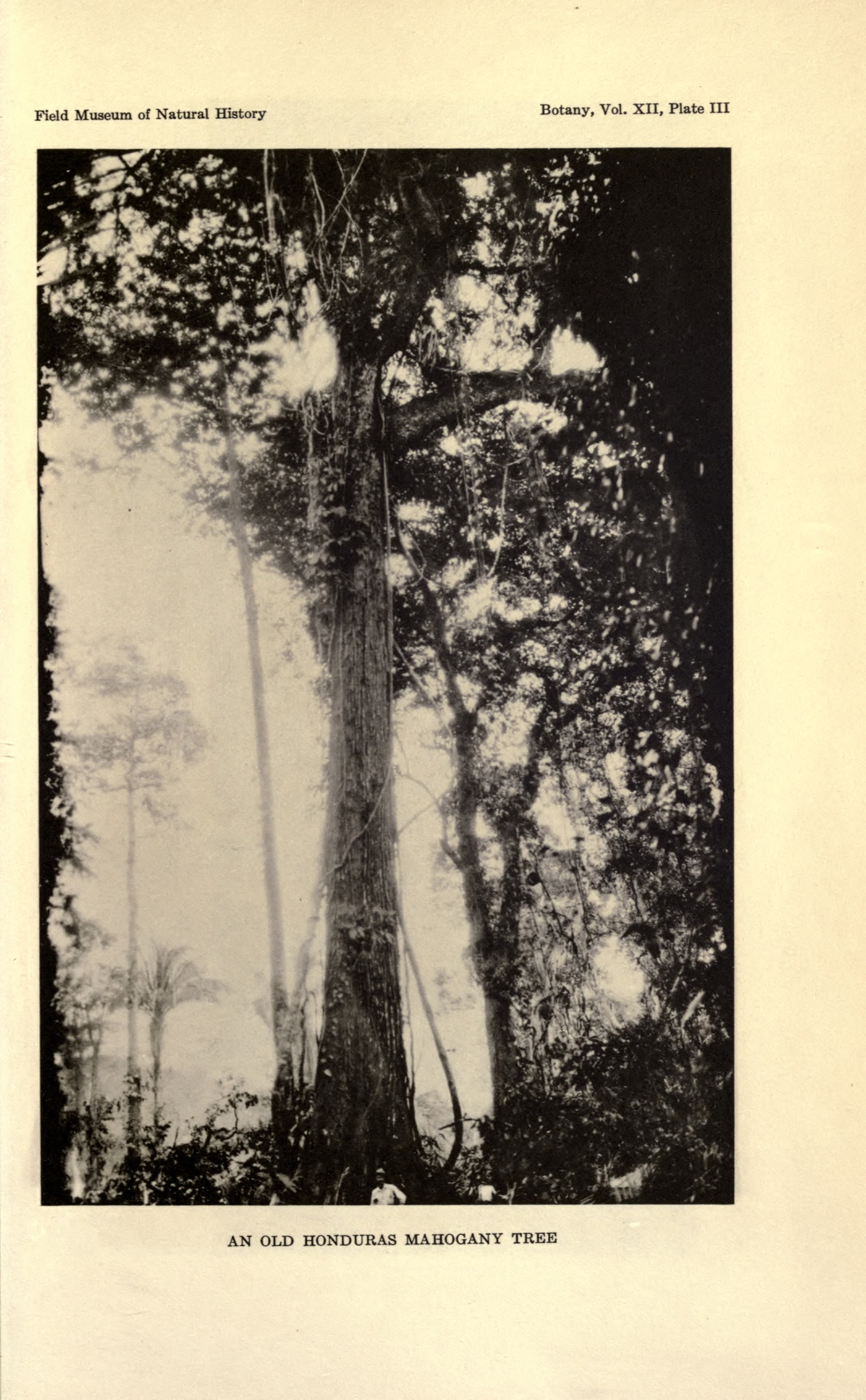 An Old Mahogany Tree, Belize around 1936